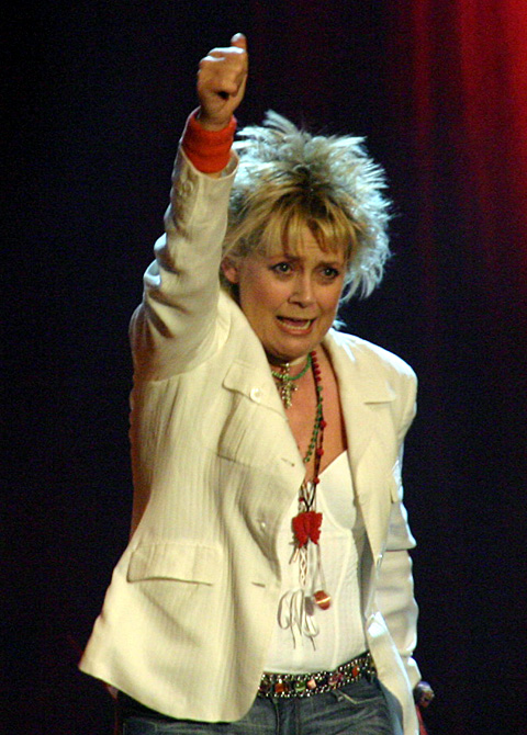 Gitte Hænning, danish singer; taken at the Cover-me concert 2005, a charity concert in Cologne, Germany.